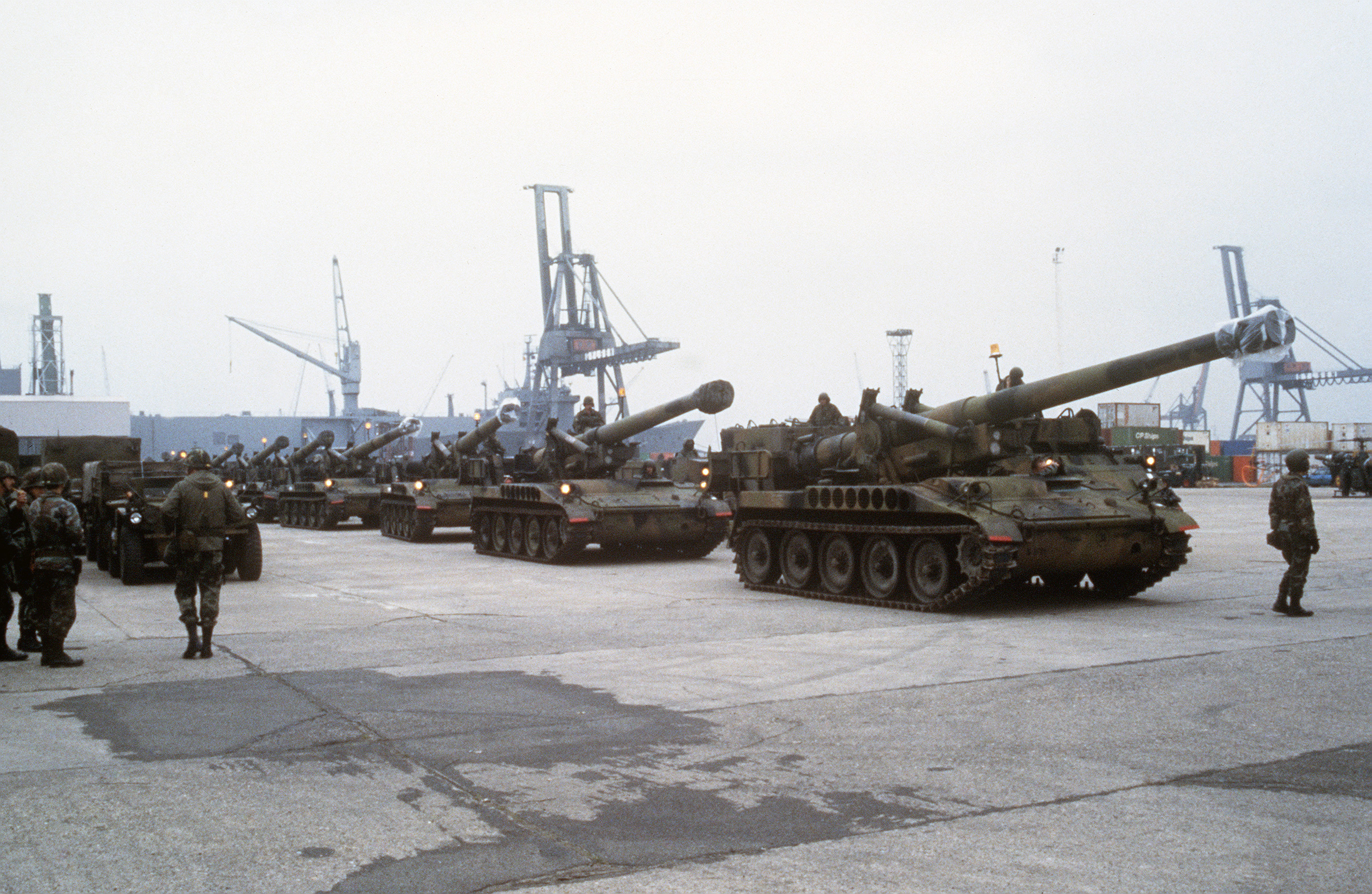 M110 203 mm self-propelled Howitzers are staged in a parking area at the port of Antwerp after being unloaded from a ship the Gylsen Terminal (today PSA) at the Churchill dock during Exercise REFORGER '84. In the background is 1 of 8 Fast Sealift Ships of the Military Sealift Command.